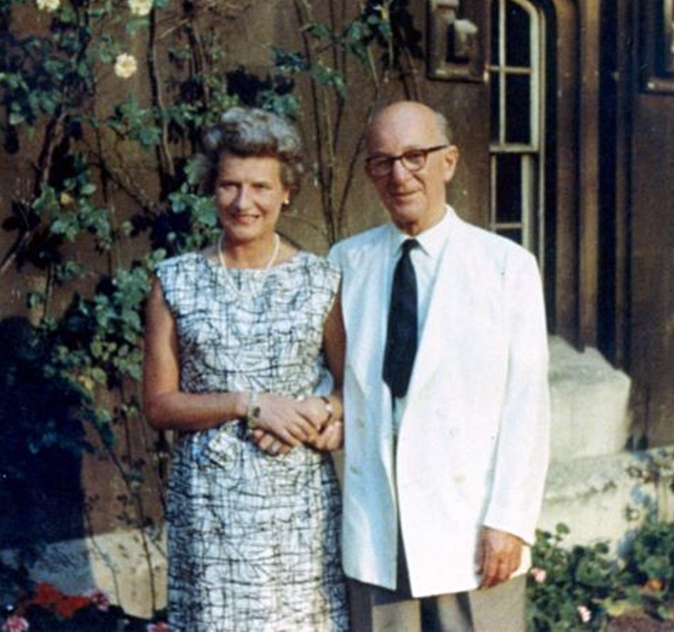 Sir Robert Macintosh & his wife Dorothy (nee Manning)